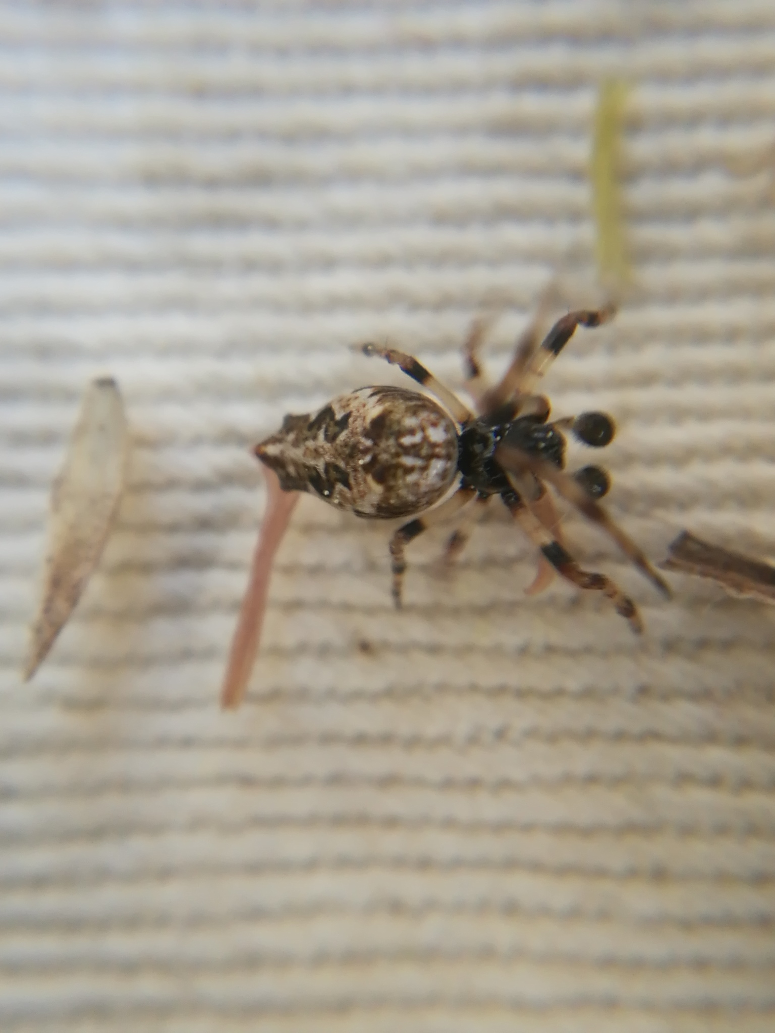 Provincia di Arezzo, Italia